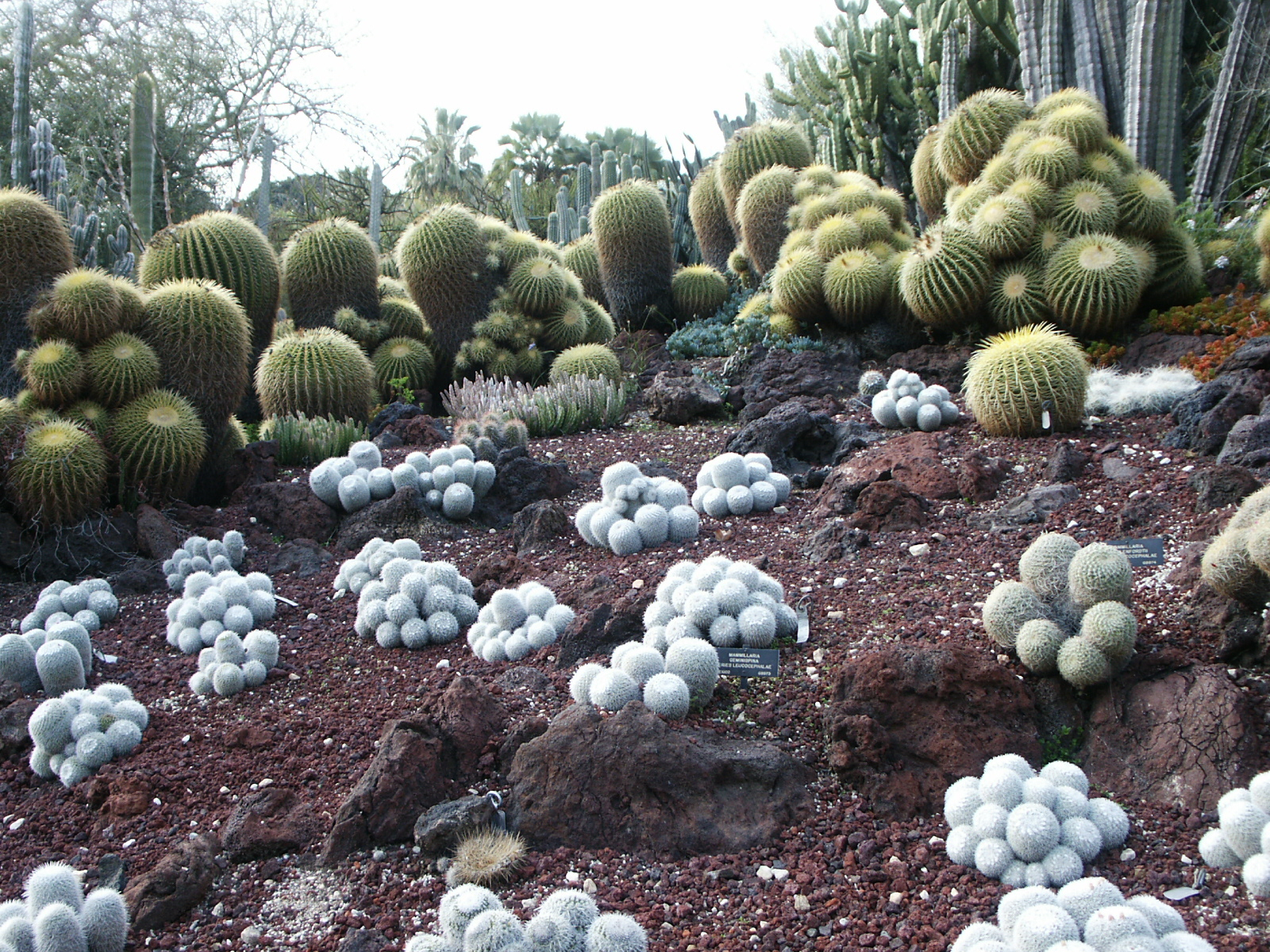 Mammillaria geminispina & Golden barrel cactus, echinocactus grusonii, Huntington Library Desert Garden, in afternoon after and during rain, February 2009 - Various cactus and succulent plants